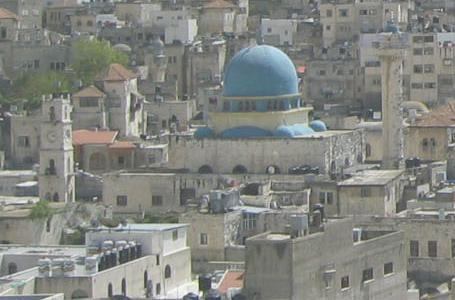 The an-Nasr Mosque in Nablus